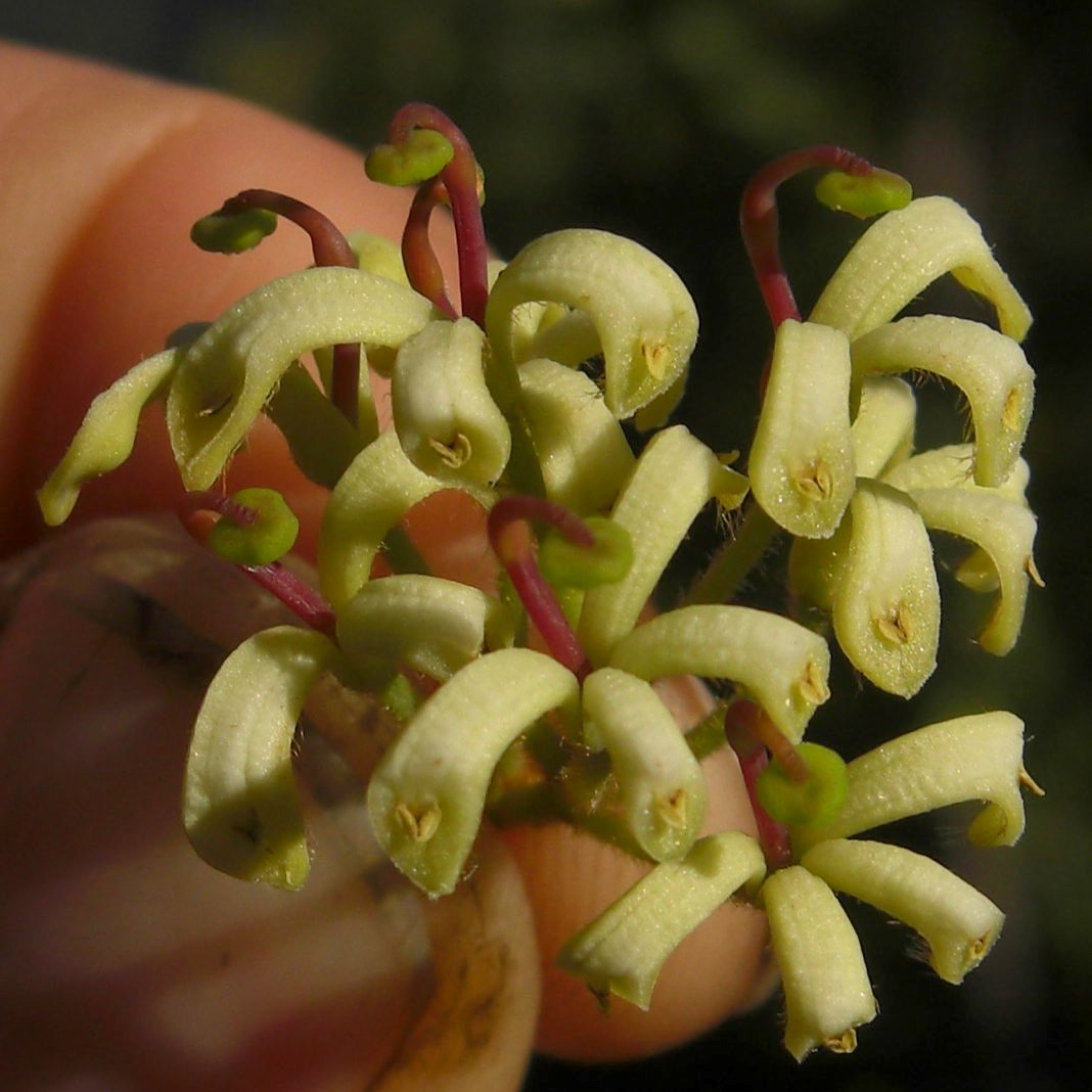 Lomatia hirsuta (Lam.) Diels ex Macbr. 20081207.24 Parque Nacional Huerquehue, Chile Another member of the Proteaceae, like the more common and showy Notro (Embothrium coccineum). The flowers of this family are bizarre: the stamens are borne in little cups at the end of the petals.